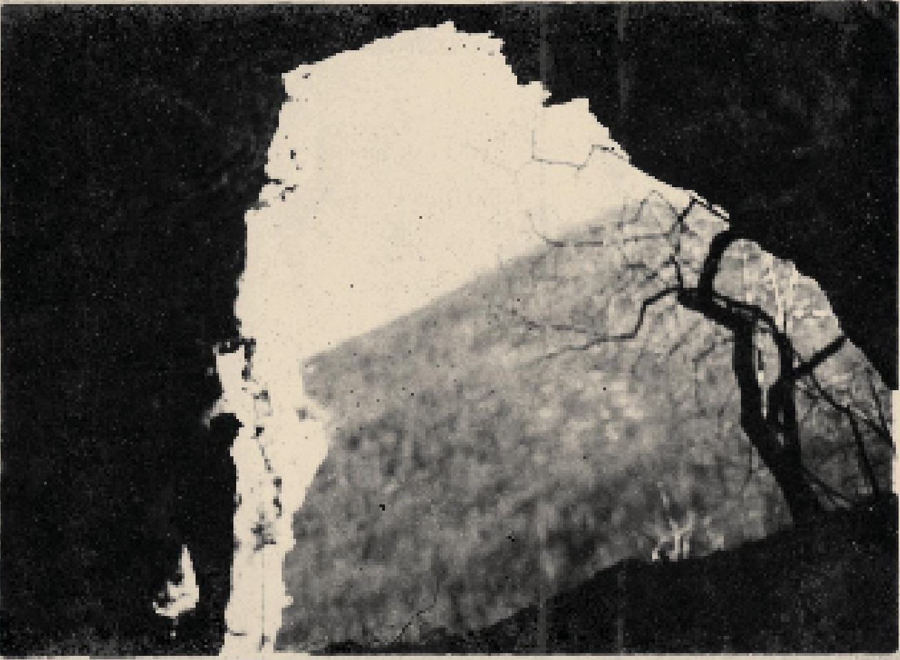 The Füzér-kő Cave in Hungary.